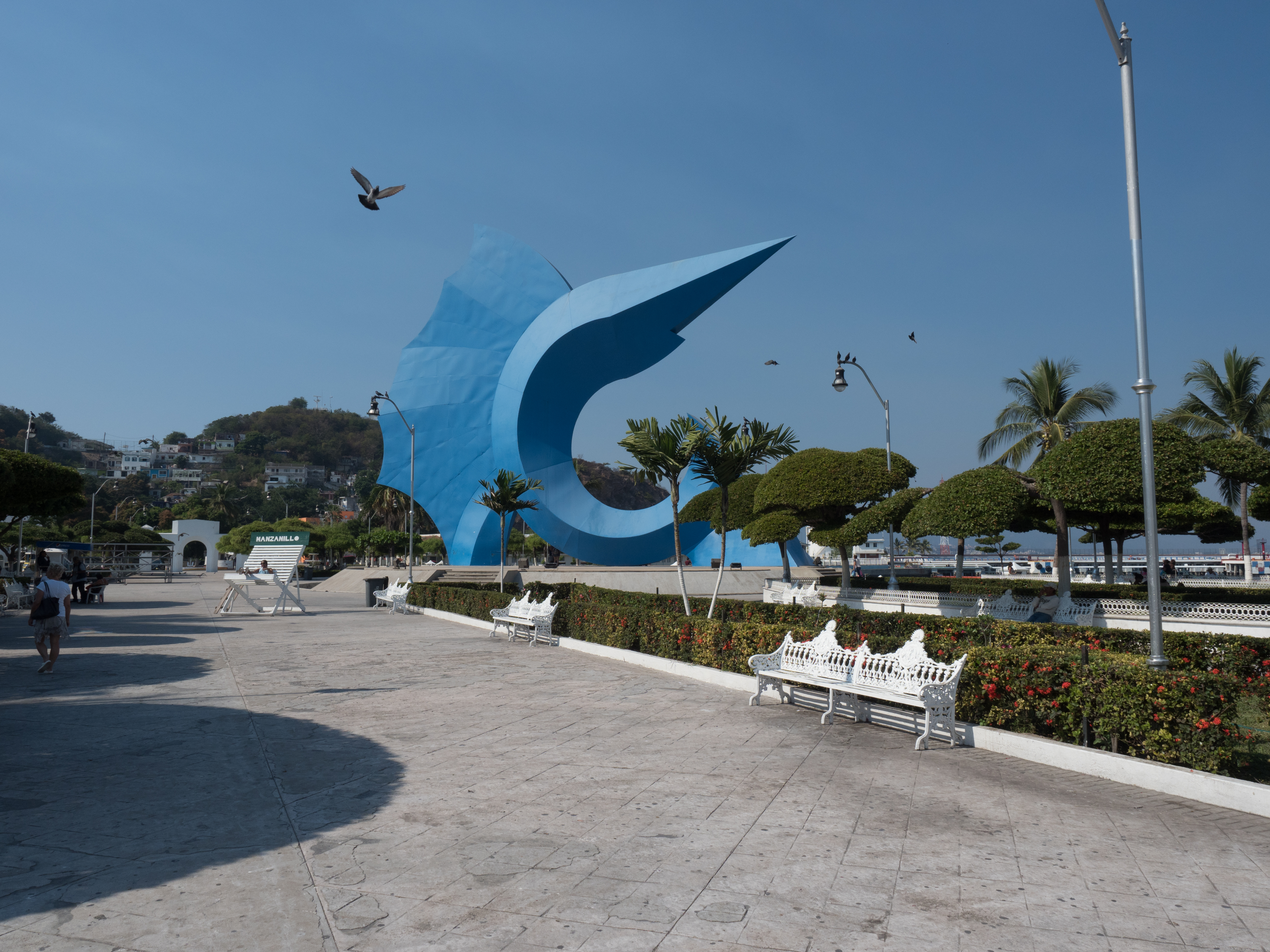 Manzanillo Mexico Harbour